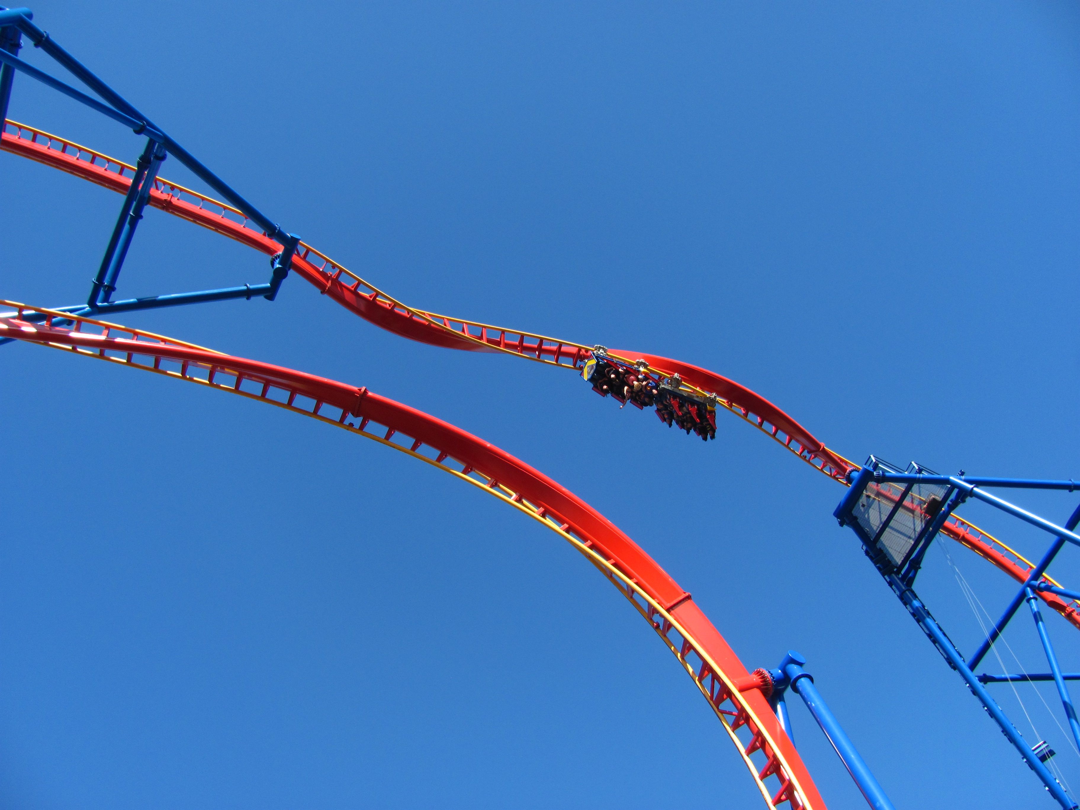 Six Flags Discovery Kingdom